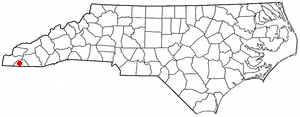 Category:North Carolina Dot Maps